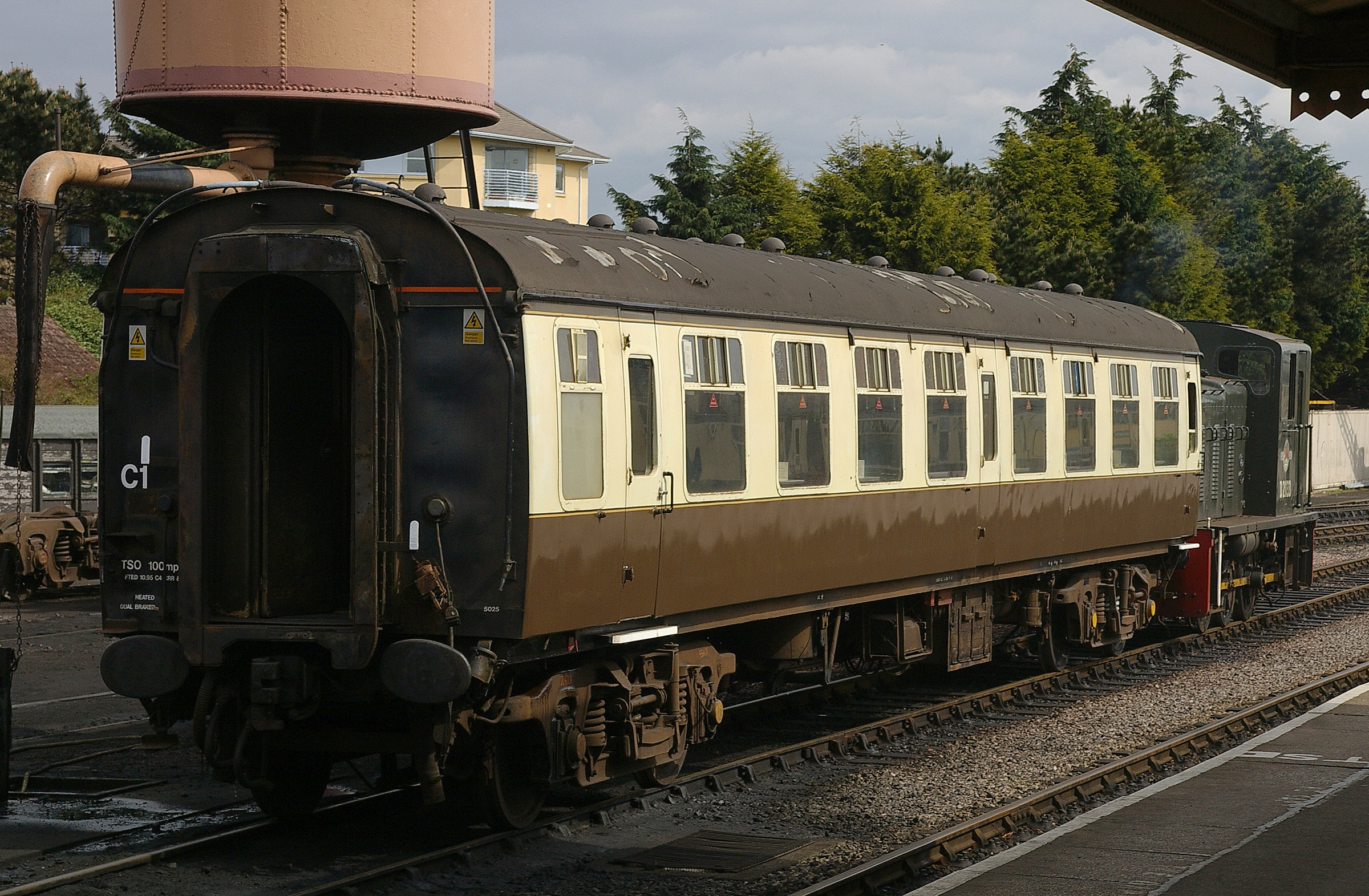 A recalcitrant carriage is shunted away from a train waiting to leave for Bishops Lydeard from Minehead on the West Somerset Railway